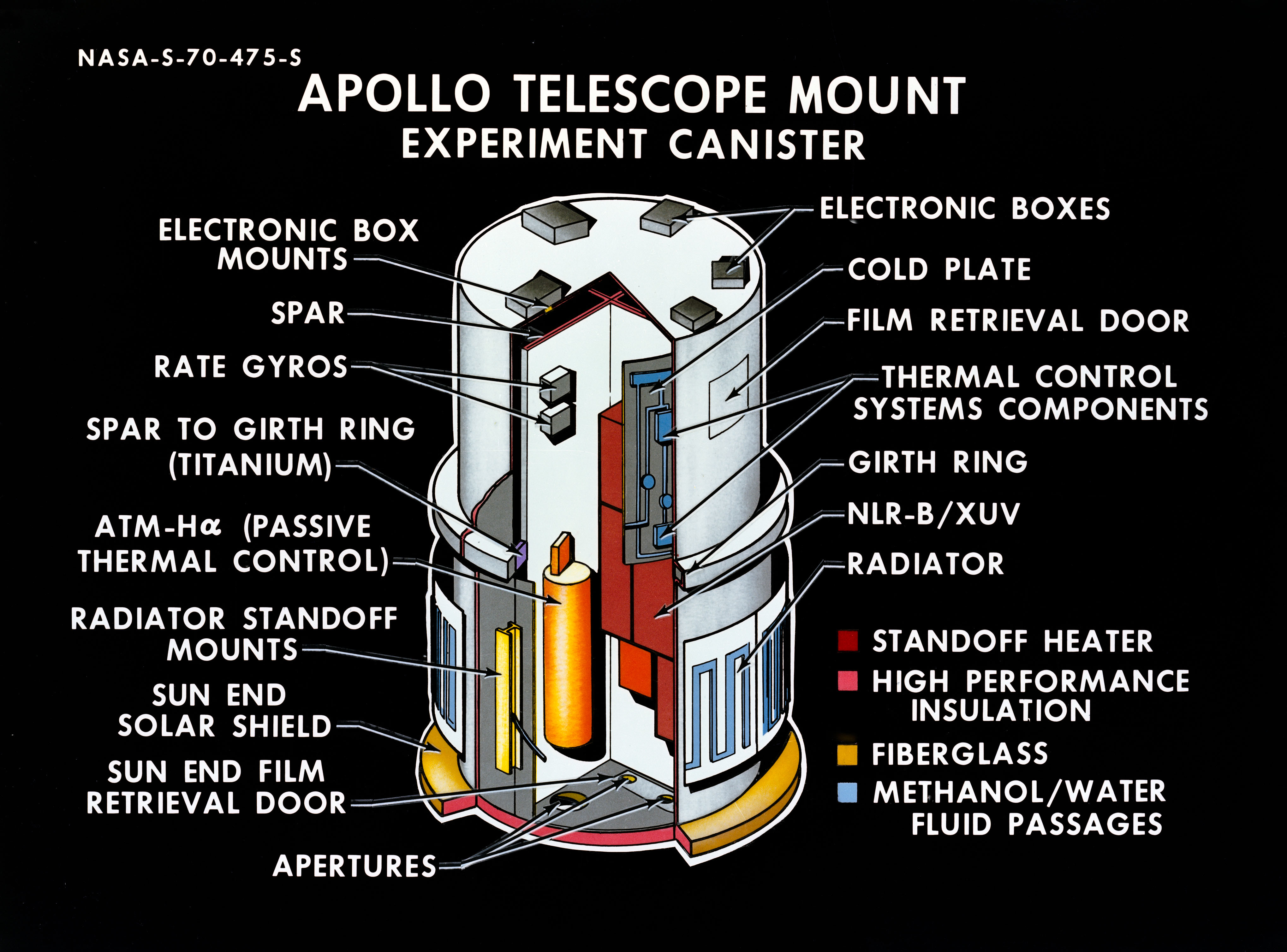 An artist's concept illustrating a cutaway view of the Apollo Telescope Mount (ATM). The ATM is one of the five major components of the Skylab 1 space station cluster which were launched into Earth orbit. This view includes a color coded key to different systems at the bottom right of the view. Other areas of the experiment canister are also labeled.